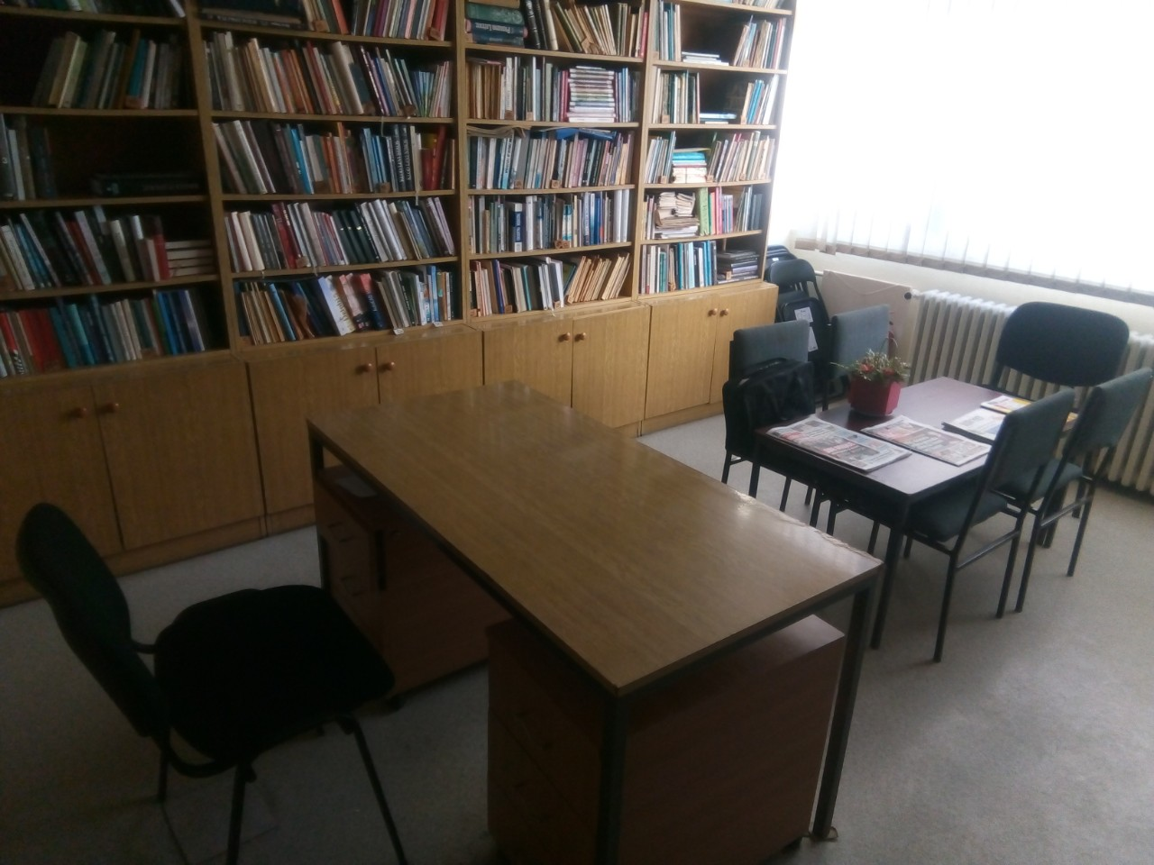 National library "Vuk Karadzic" Batočina Srpski (latinica): Narodna biblioteka "Vuk Karadzic" Batočina